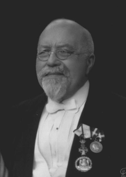 Senior teacher Hans Rasmussen, Sakskøbing, 1851-1939